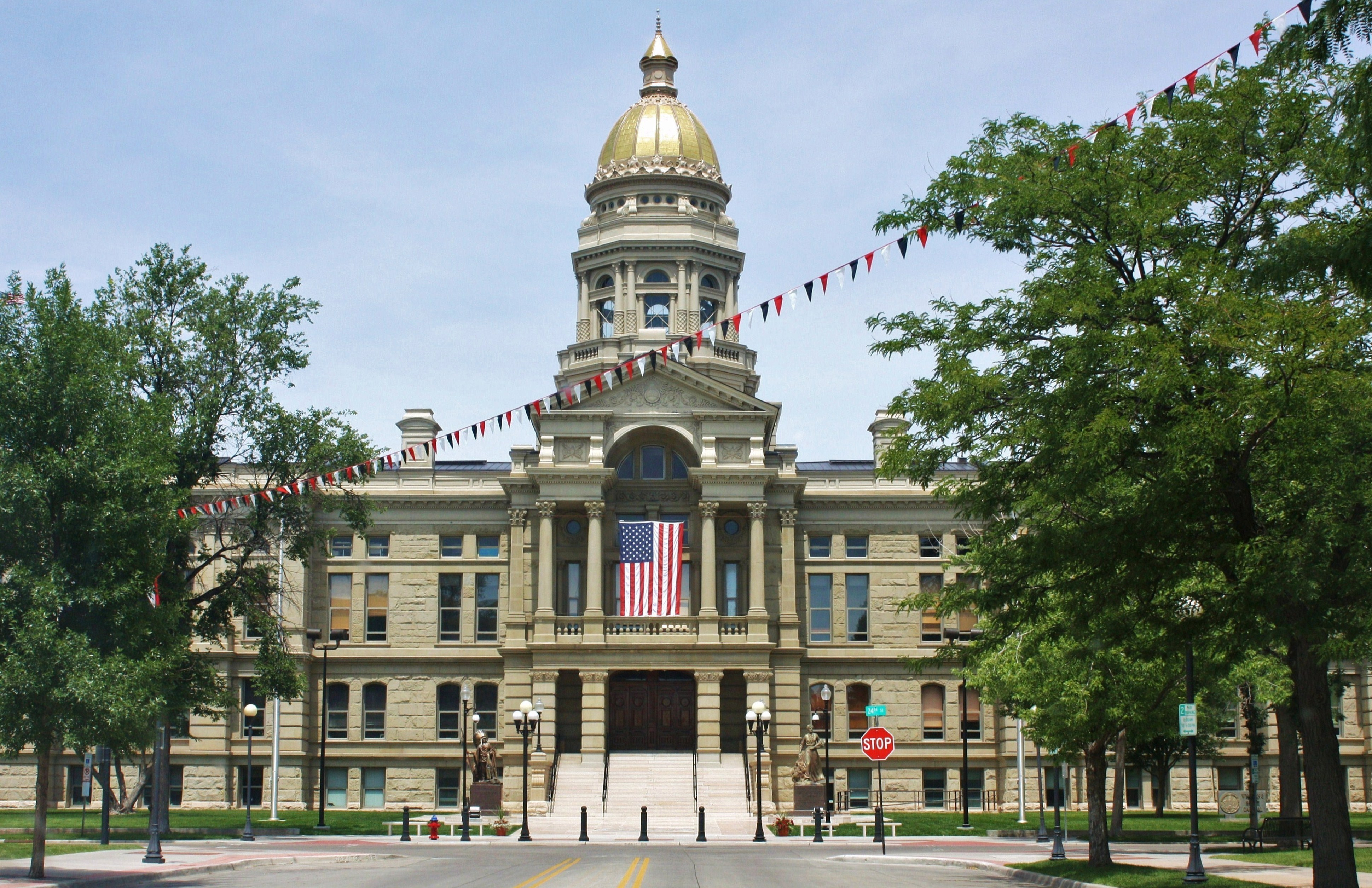 Main (south) facade of Wyoming State Capitol, Cheyenne, Wyoming.